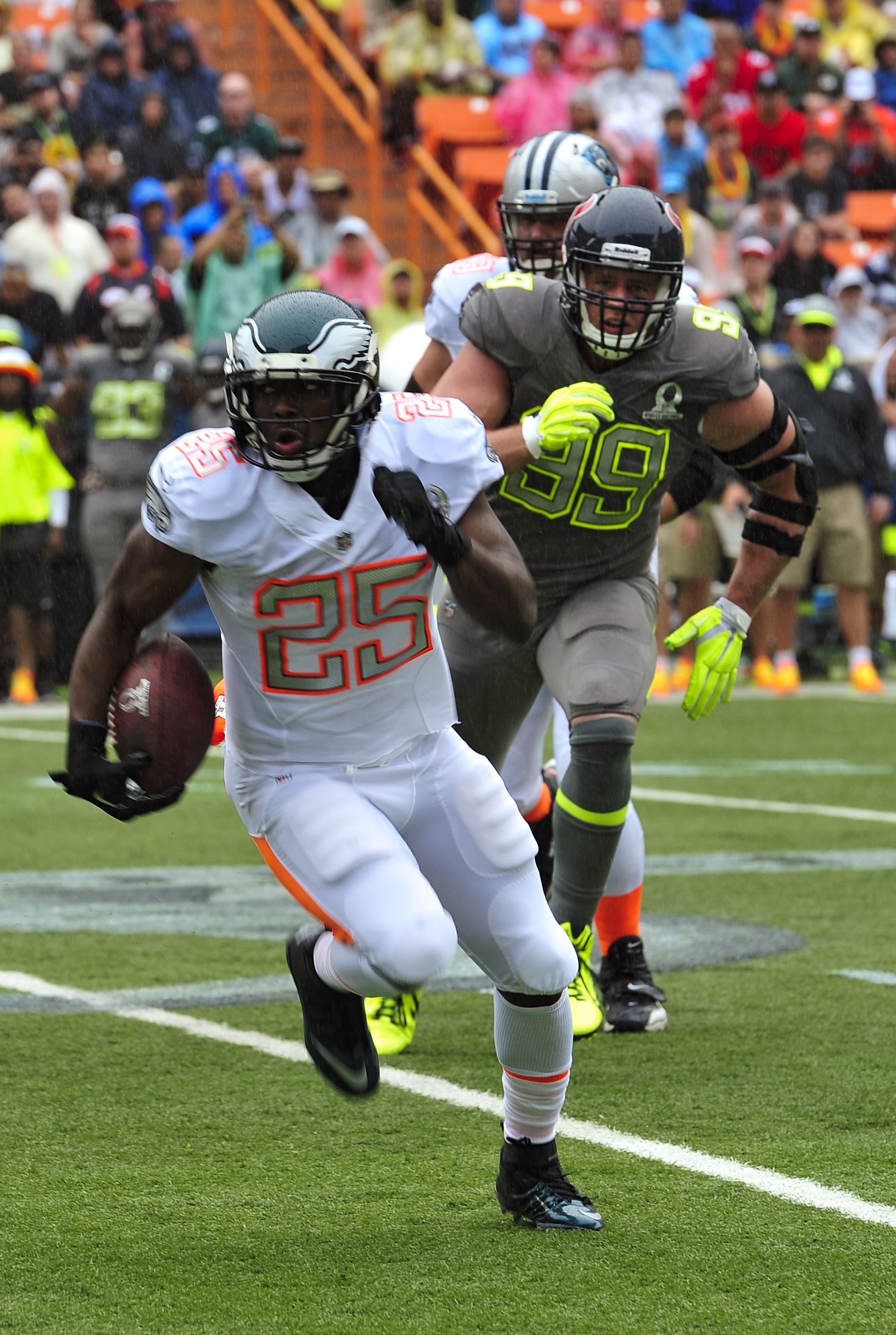 Philadelphia Eagles running back, LeSean McCoy, being pursued from Houston Texans defensive end, J. J. Watt, in the 2014 Pro Bowl game at Aloha Stadium.